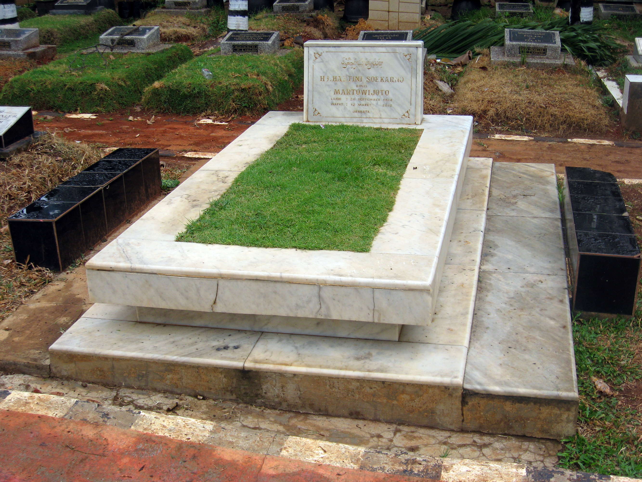 The grave of Hartini, one of Sukarno's wives, at the Karet Bivak Public Cemetery in Jakarta